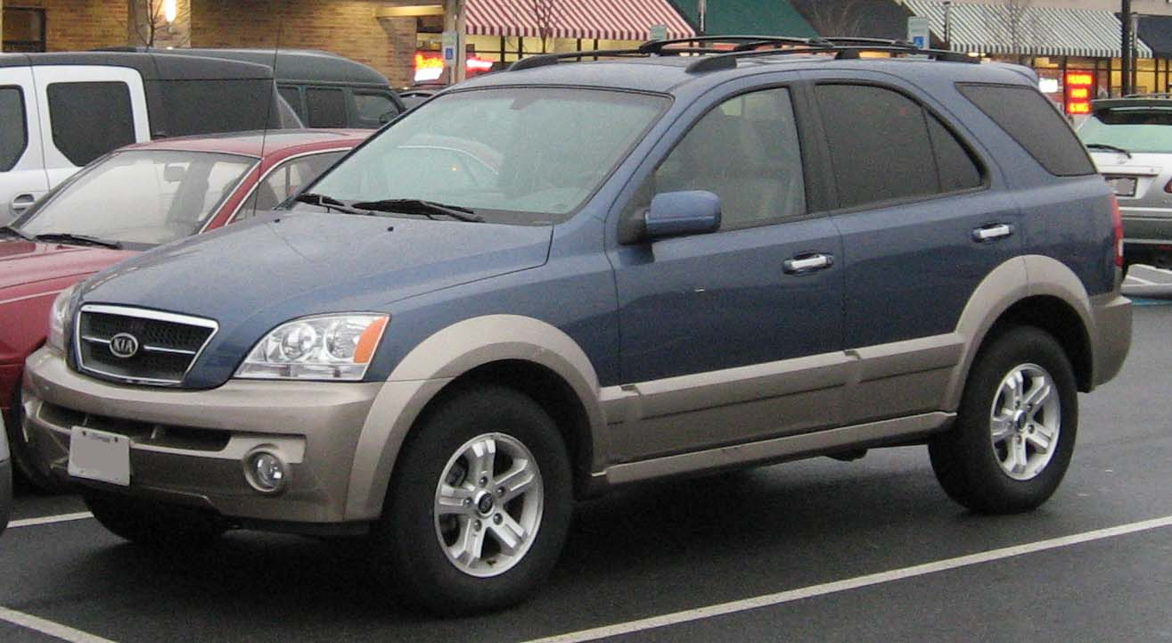 2003-2006 Kia Sorento photographed in USA.